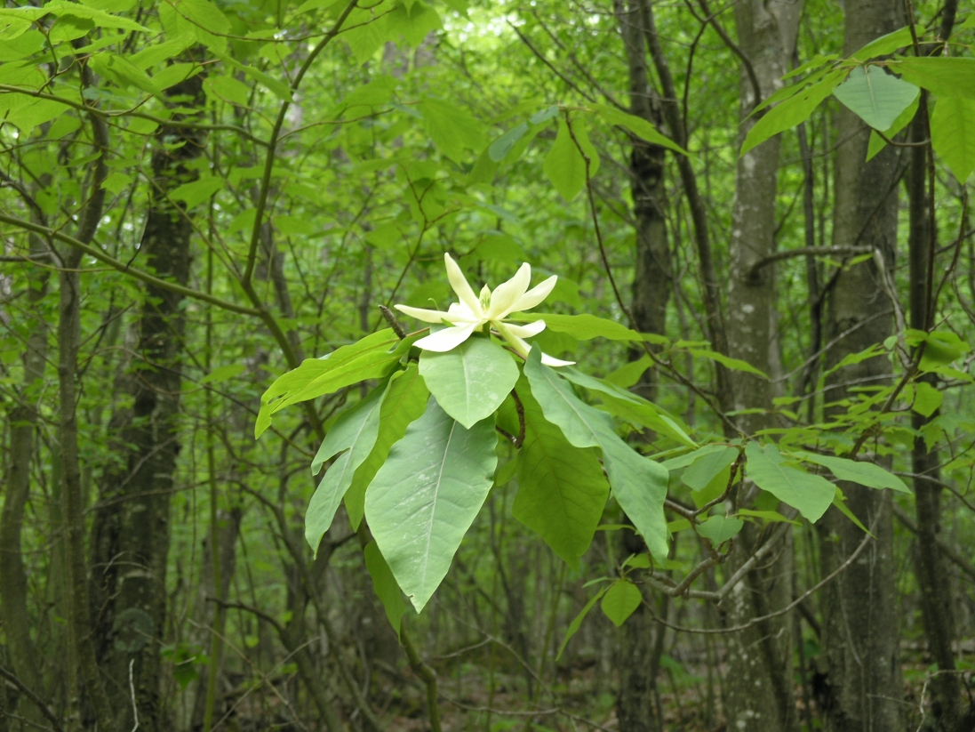 Magnolia fraseri flowering shoot. South of Spruce Knob, West Virginia, USA.